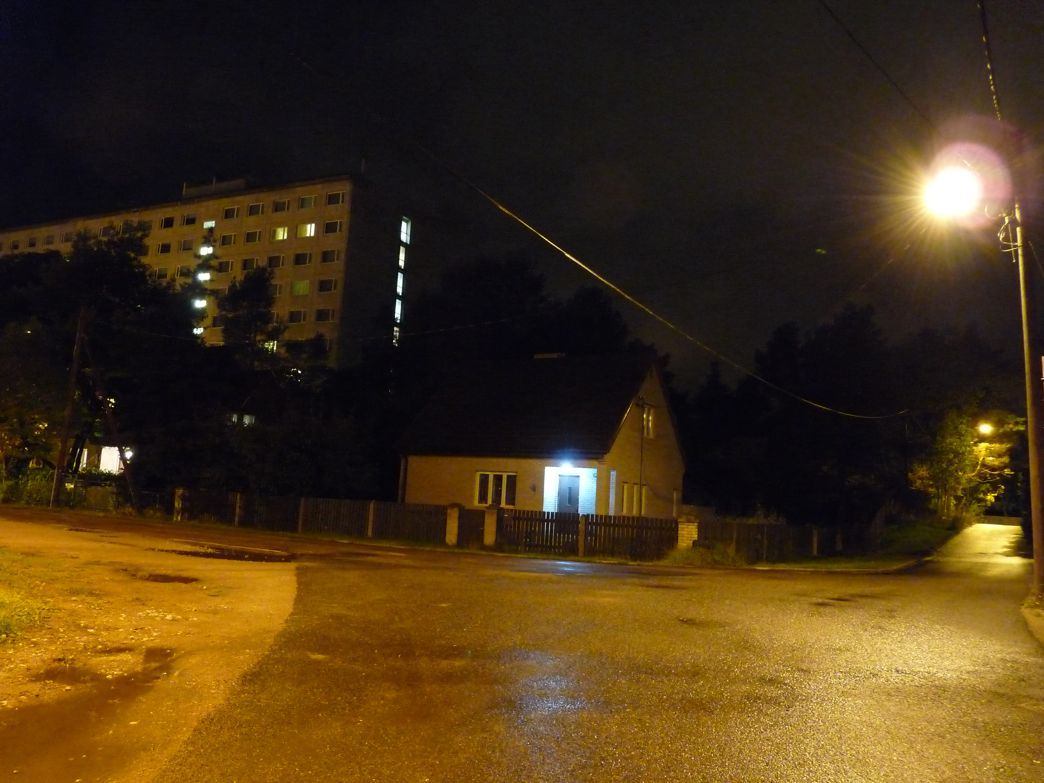 Tallinn, Estonia